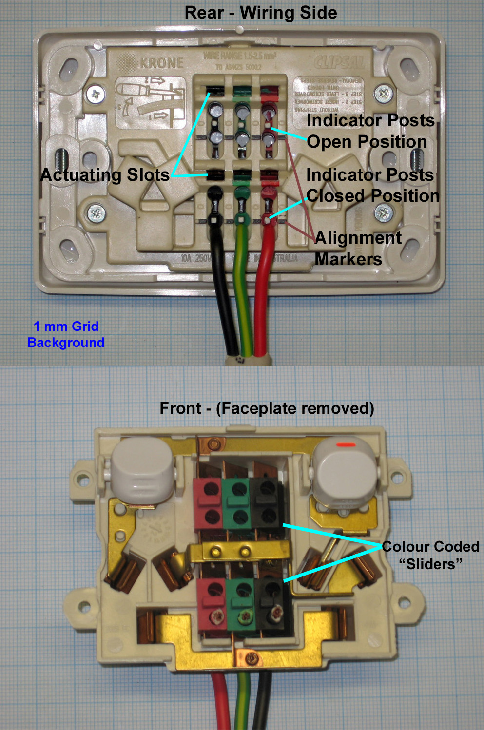 Australian (Dual) Power Outlet, utilizing "Insulation Displacement" as a means of connecting to Low Voltage (230 V) supply conductors. (Clipsal Part Number 2025QC. Installation Instructions - ) The instructions molded into the back-plate readː- TO Connect STEP 1:- INSERT CABLE WITHOUT STRIPPING STEP 2:- INSERT SCREWDRIVER STEP 3:- LEVER SCREWDRIVER UNTIL LOCKED REMOVAL:- REVERSE STEPS